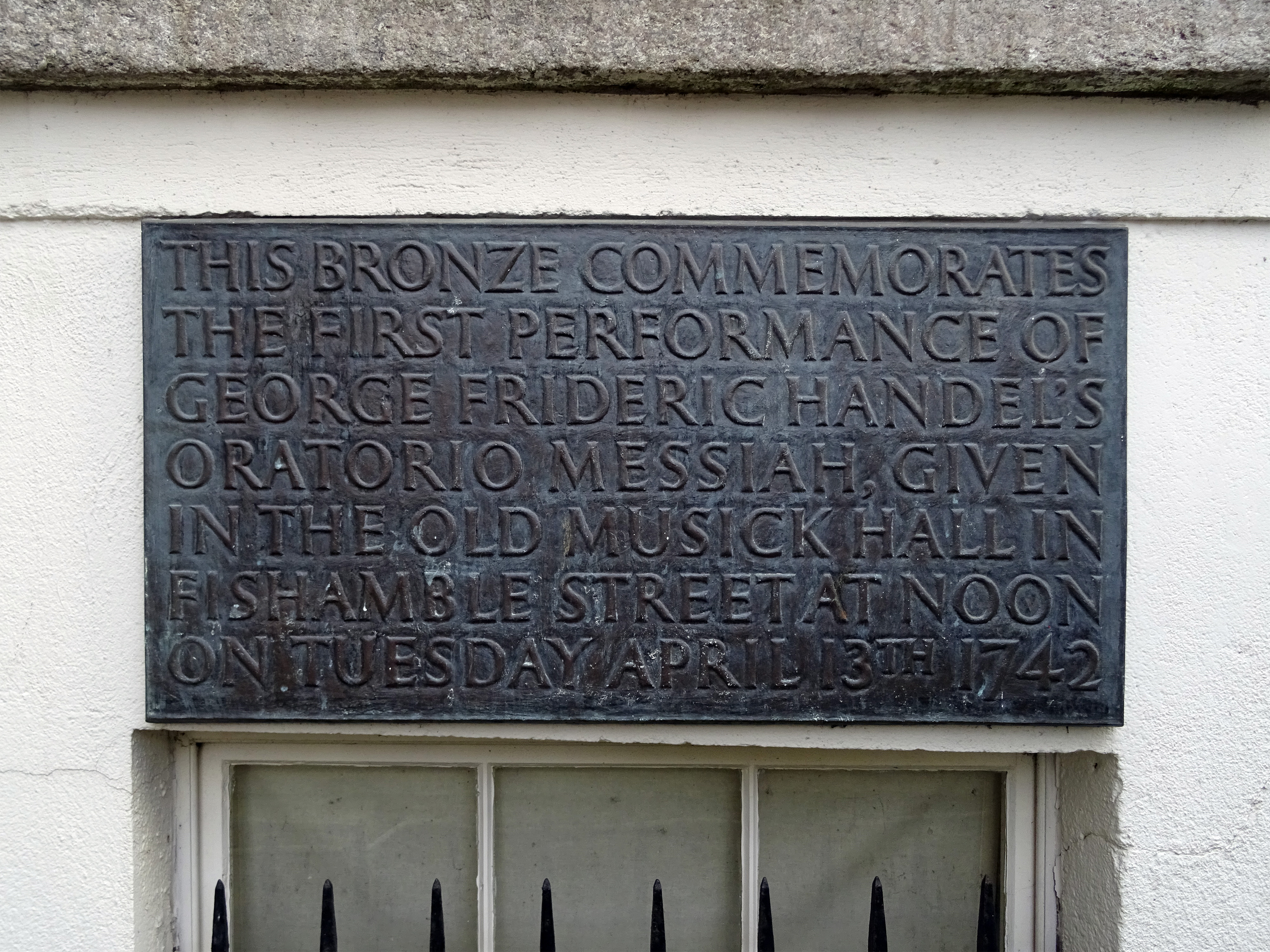 19 Fishamble Street Temple Bar Dublin 8 - This bronze commemorates the first performance of George Frideric Handel's oratorio Messiah given in the old musick hall in Fishamble Street at noon on Tuesday April 13th 1742.